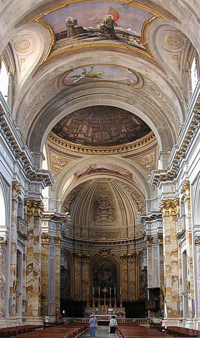 L'Aquila, Cathedral of St Maximus. Interior view to main altar.